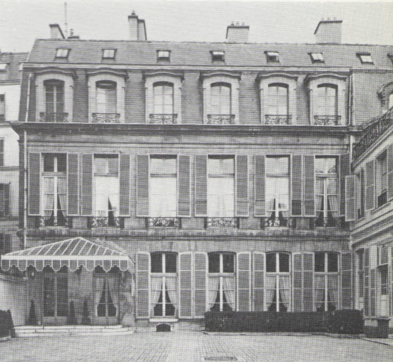 Hôtel de Poulpry, 12 rue de Poitiers, VIIe arrondissement, Paris